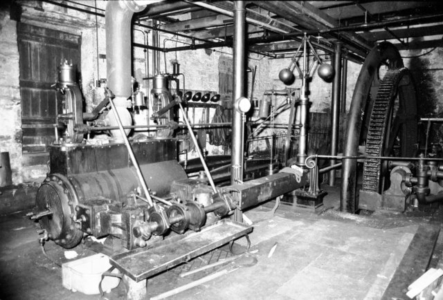 Steam engine, Keathbank Works, Blairgowrie Claimed to be 1865 but fitted with a much more modern design of cylinder that is claimed to be c1914-18.